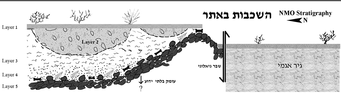 NMO general stratigraphy